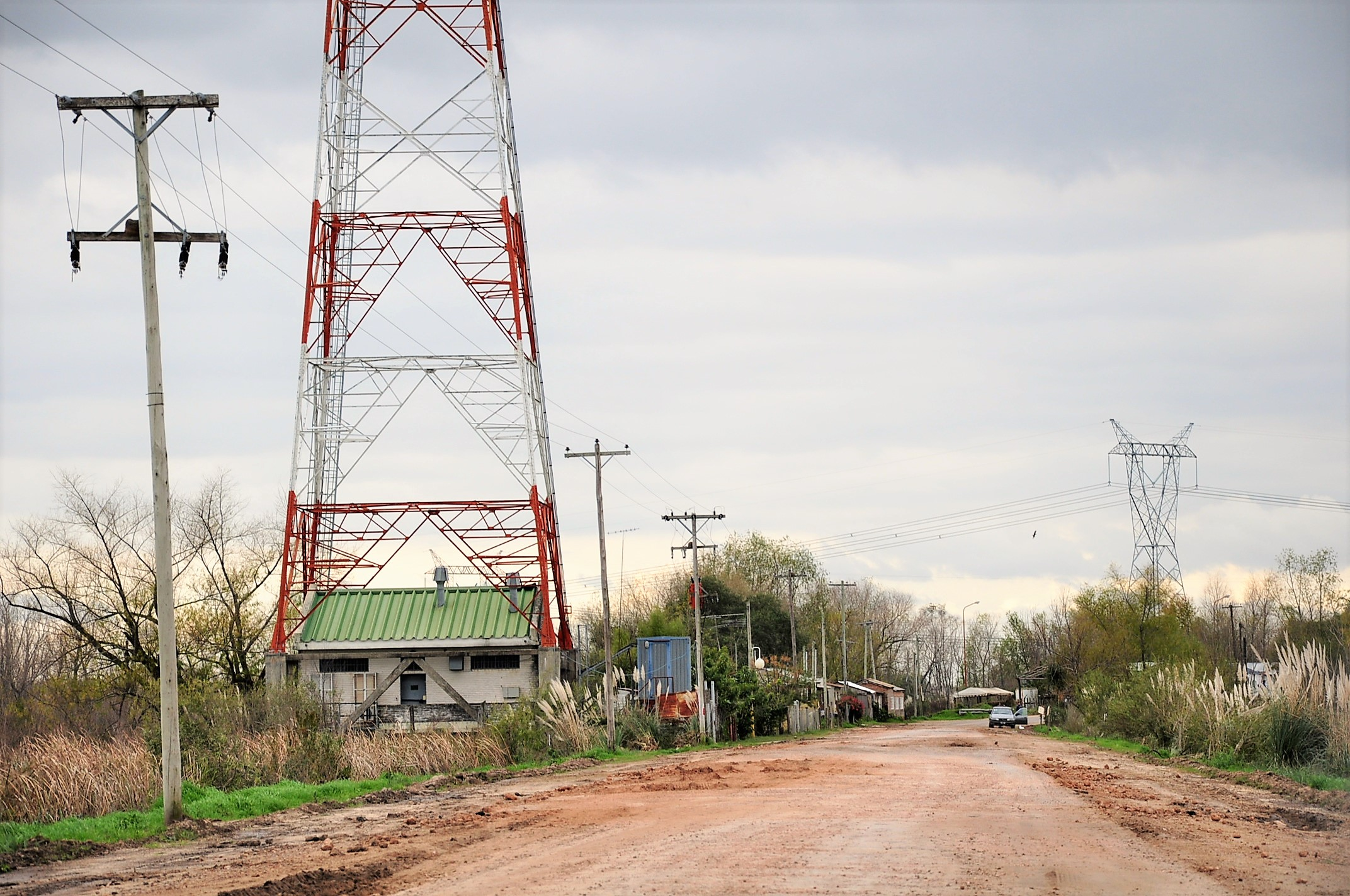 The old National Road No.12 (now called the Caminera a Ibicuy) passing through the hamlet of Brazo Largo (municipality of Villa Paranacito, Islas del Ibicuy department, Entre Ríos province, Argentina)